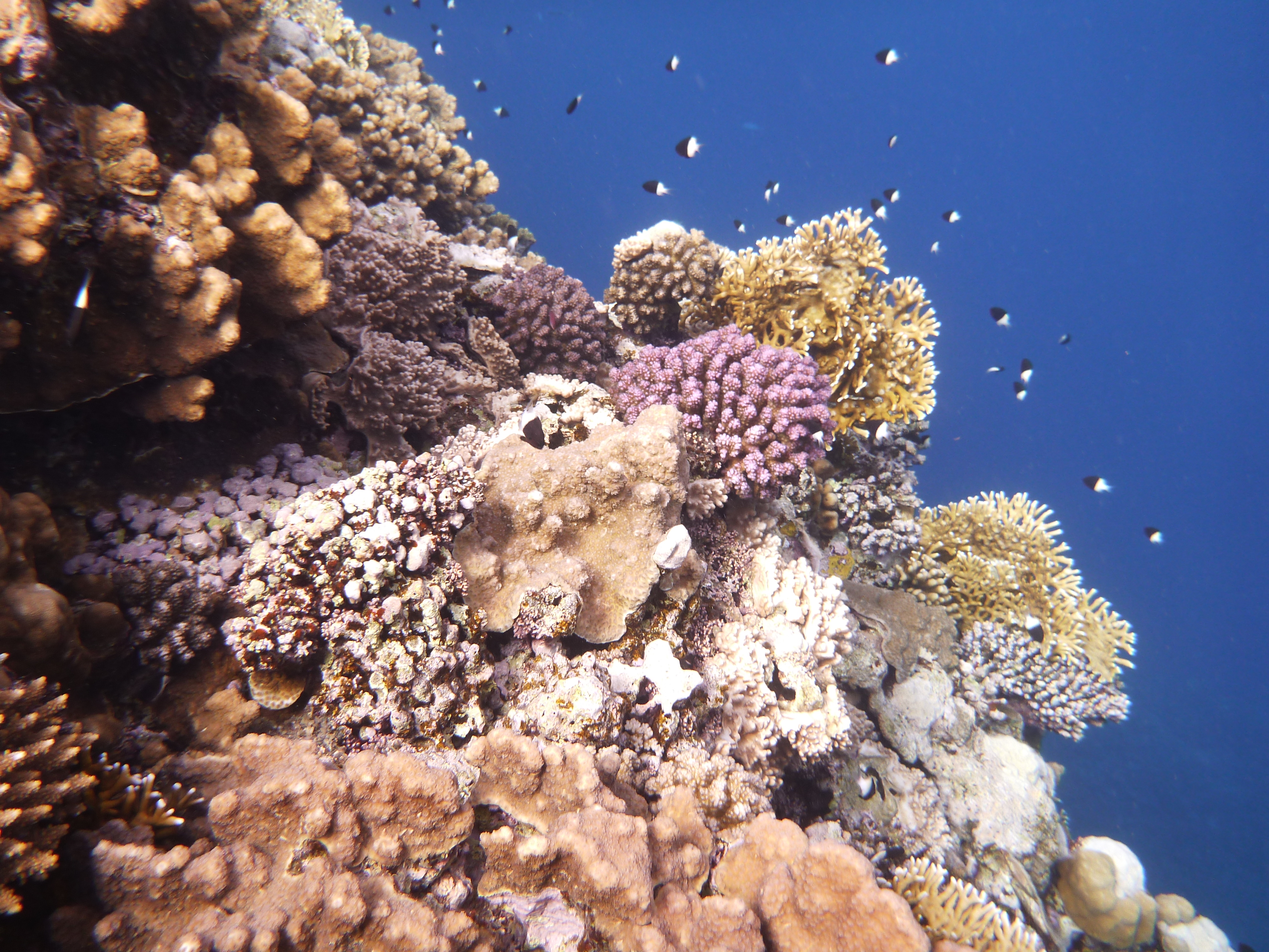 Red Sea Coral Reef at Egytian coast, north of Marsa Alam